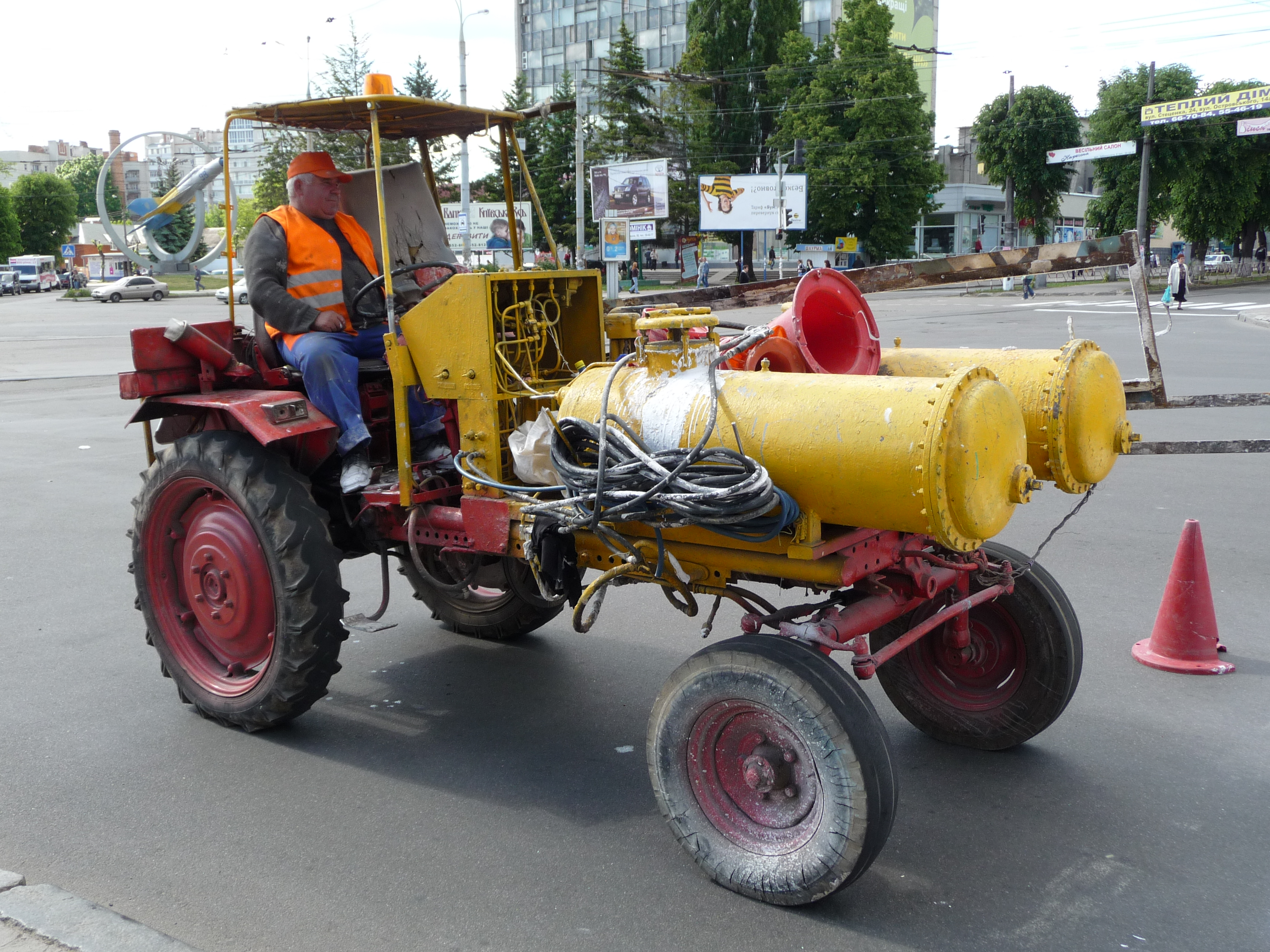 Tool carrier T-16MG (USSR tractor). Ukraine, Vinnytsia, 2009. Production of KhZTSSh (Kharkov)